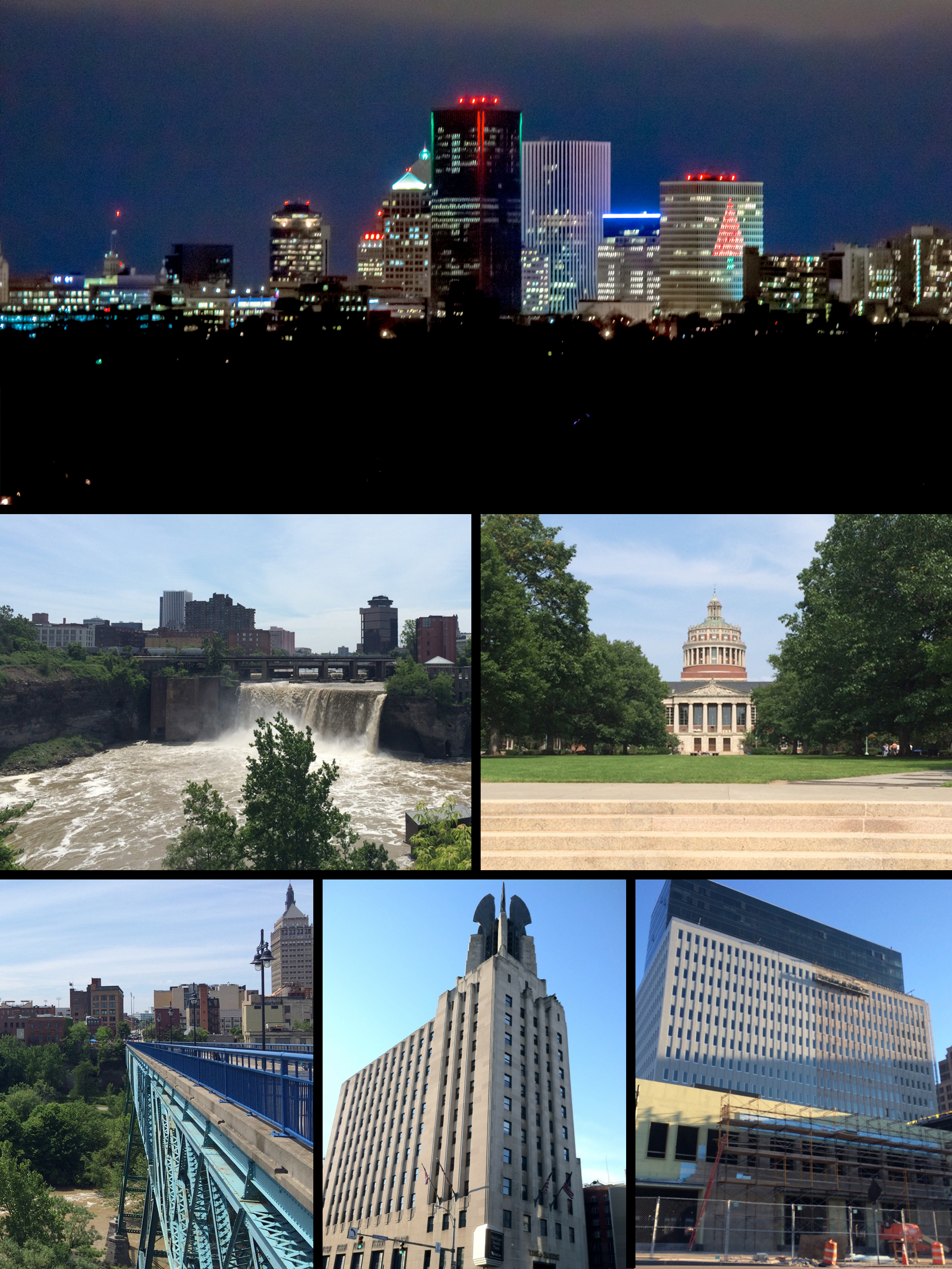 Various cityscapes of Rochester, New York USA.